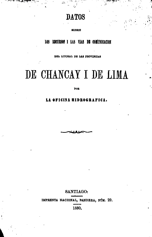 Datos sobre los recursos i las vías de comunicación del litoral de las provincias de Chancai i de Lima, publicados en 1880 por el Gobierno de Chile: Francisco Vidal Gormaz Holger Birkedal Fernando Juliet